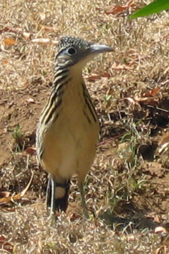 Lesser Roadrunner Teotitlán de Flores Magón